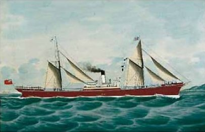 Painting by Antonio Lusso (1855-1907) of the English merchant ship Magnus Mail in 1895.